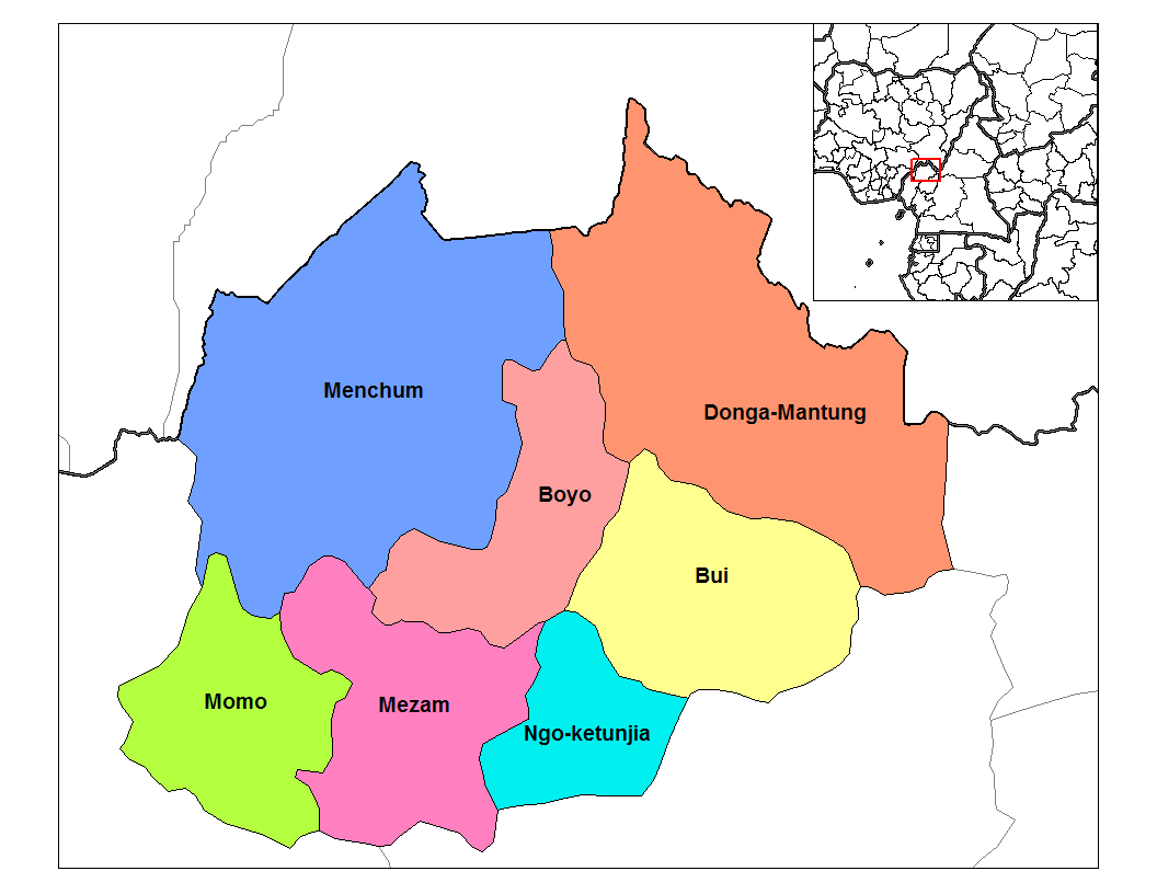 Map of the divisions of Northwest province in Cameroon. Created by Rarelibra 19:55, 1 September 2006 (UTC) for public domain use, using MapInfo Professional v8.5 and various mapping resources.